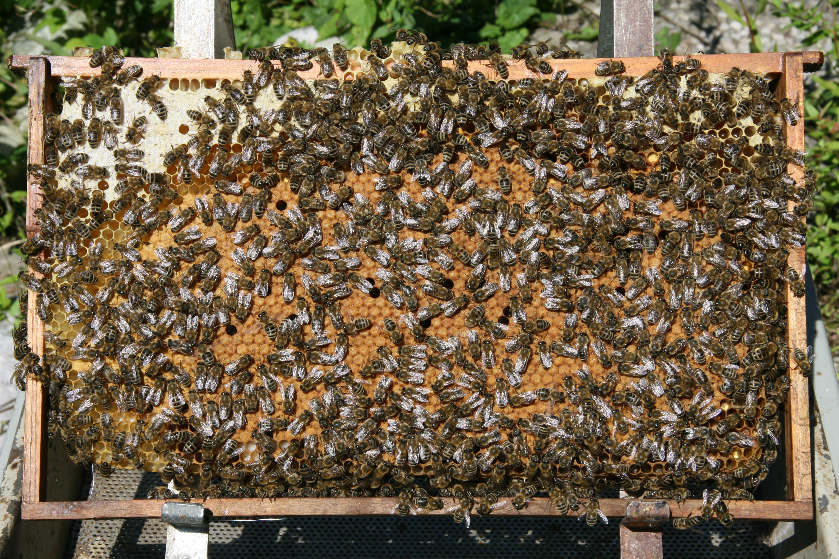 Bees on a honeycomb